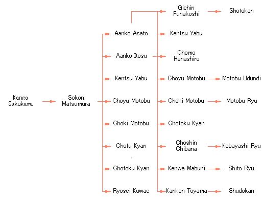 The lineage of Shuri-te